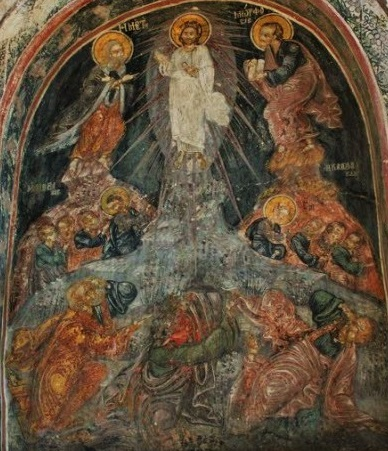 Fresco from Zavordas Monastery